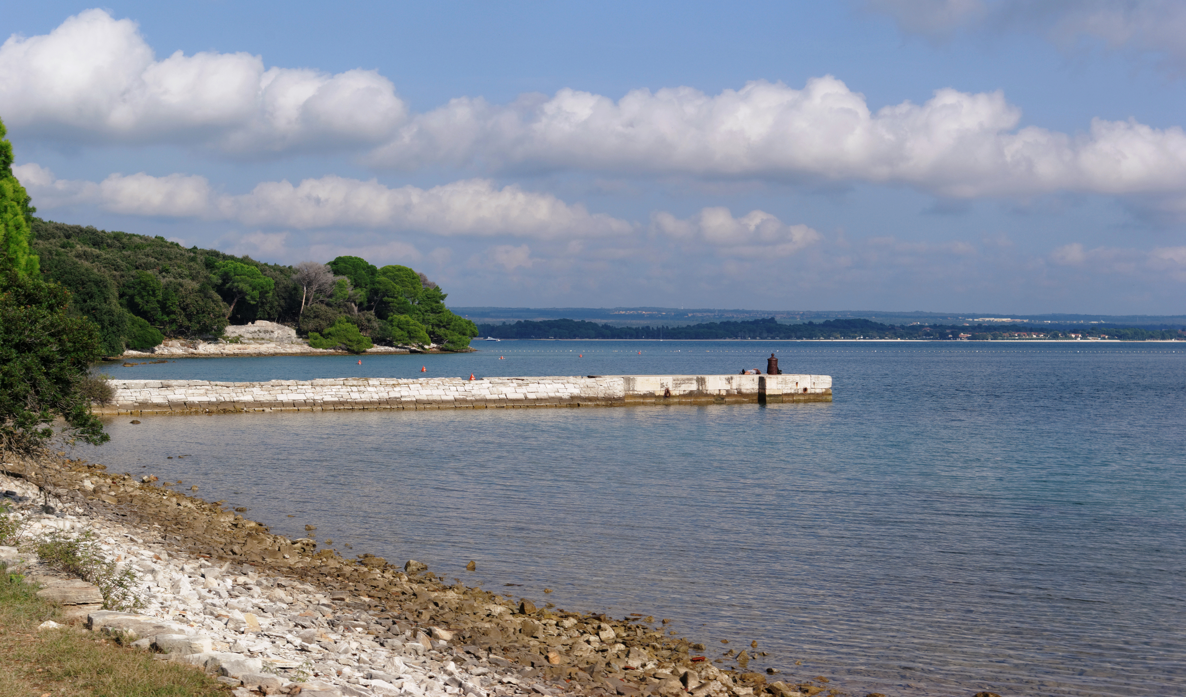 Croatia, Brijuni, Coast line at the Bay of Verige